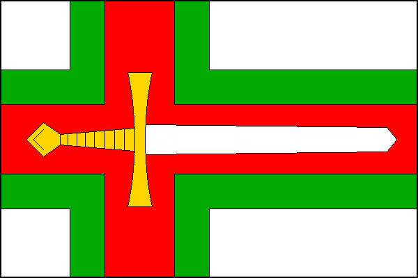 Flag of Buková, Plzeň-South District